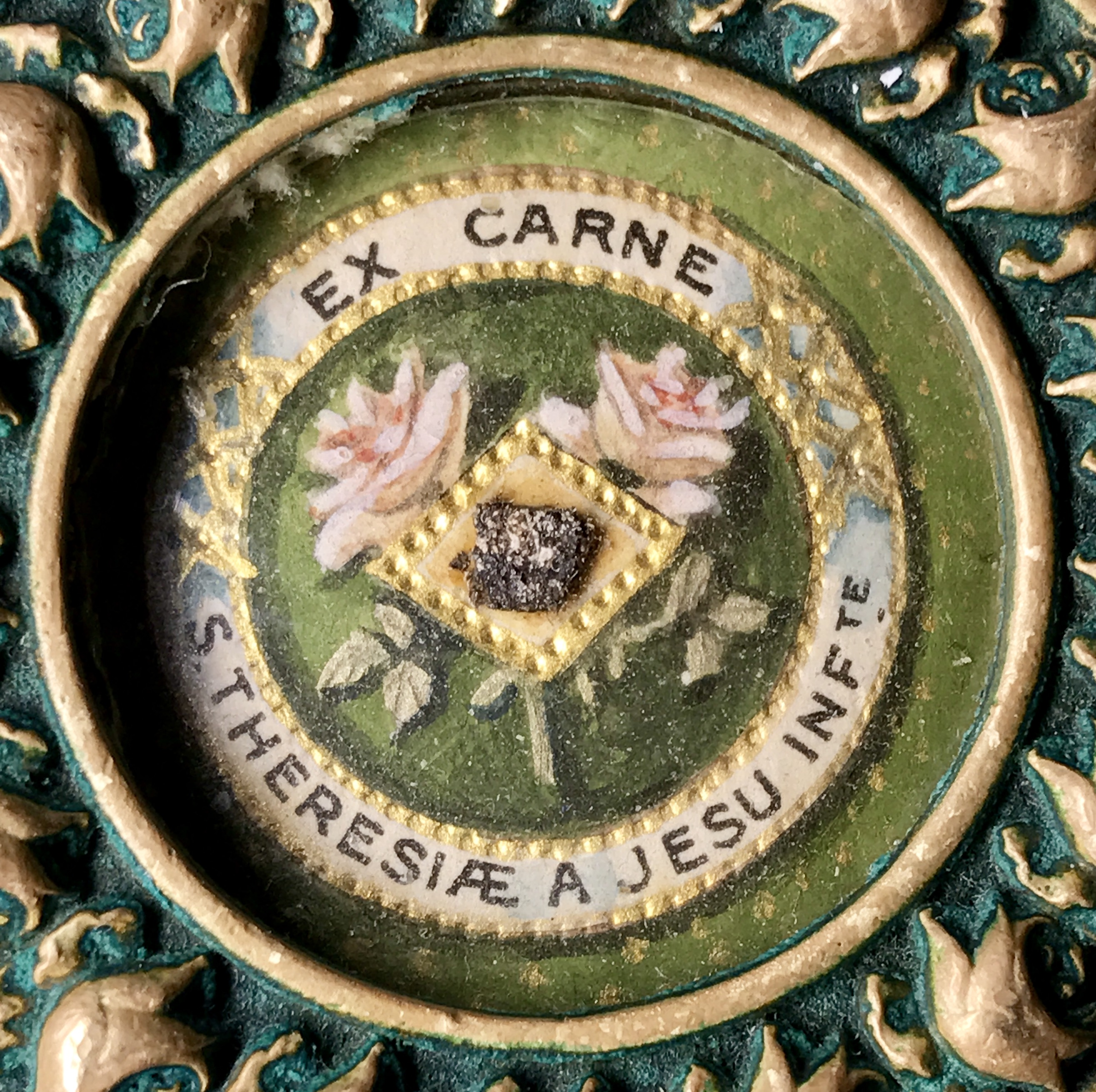 Close up of First Class Relic of Saint Therese of Lisieux